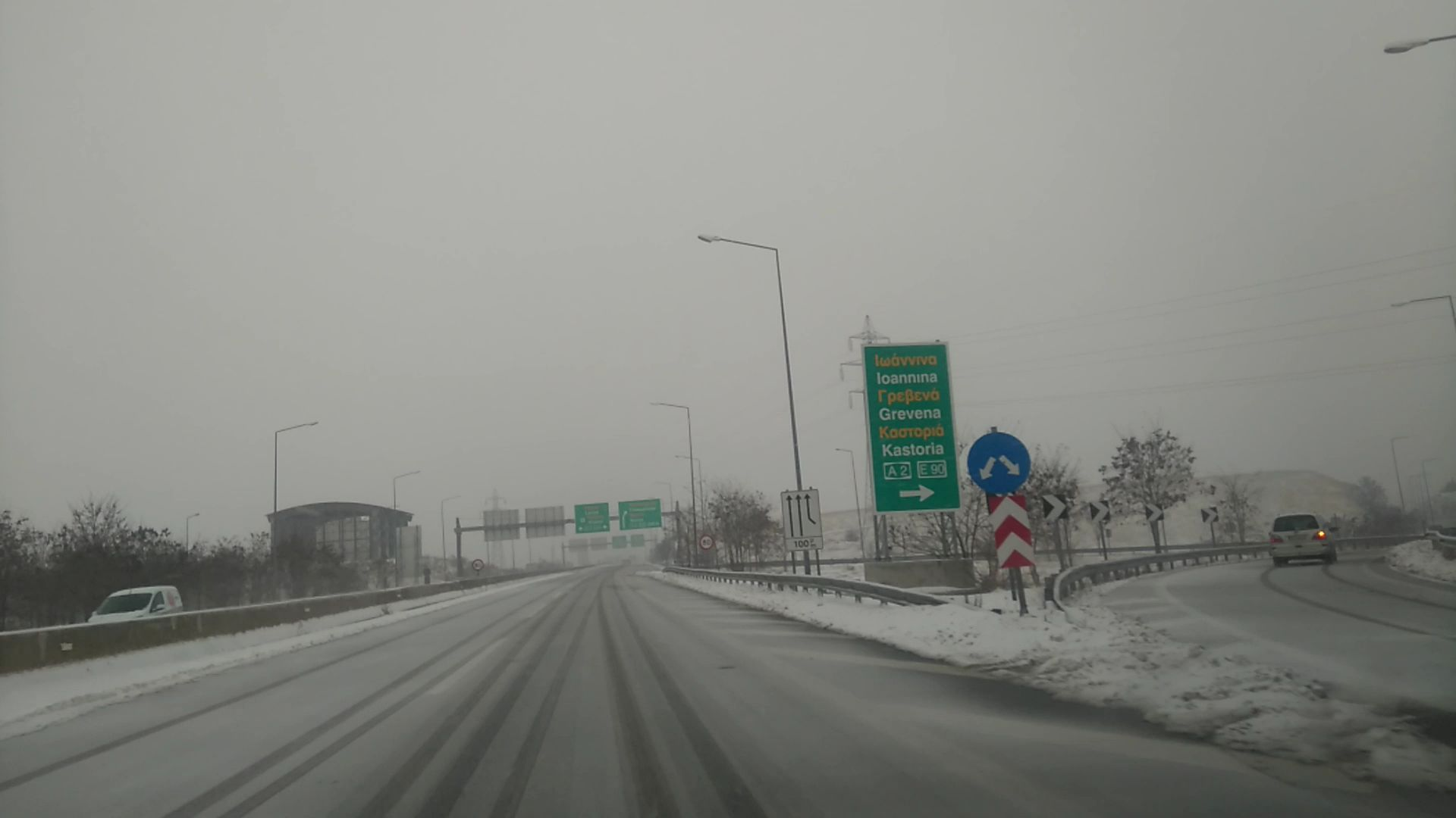 Motorway 27 (A27) exit to Motorway 2 (towards the west) at the Kozani interchange (12), Greece on 9 January 2019